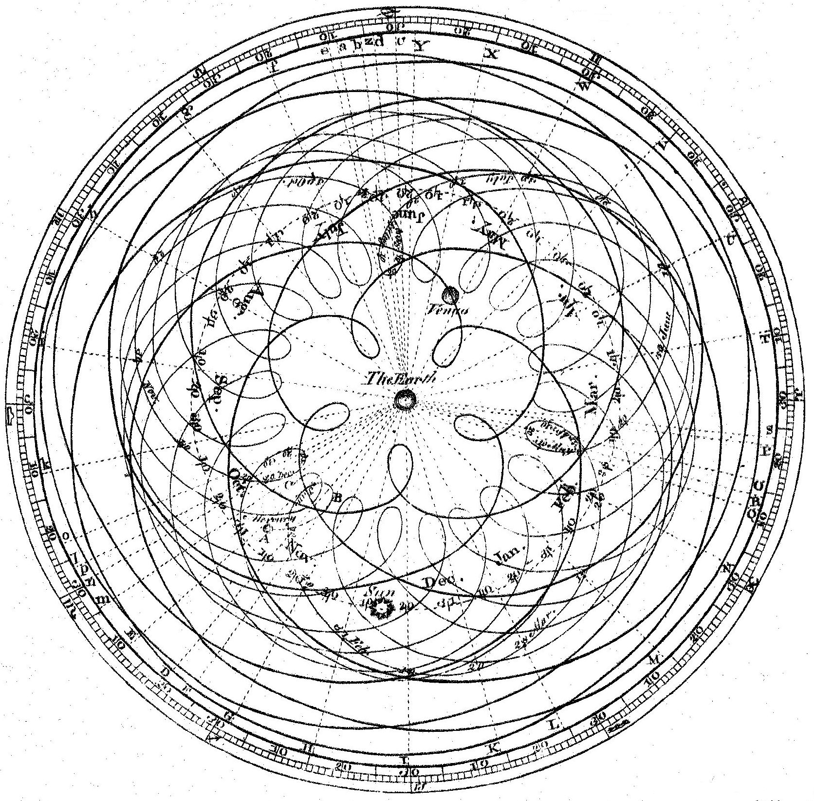 Representation of the apparent motion of the Sun, Mercury, and Venus from the earth. Taken from the "Astronomy" article in the first edition of Encyclopædia Britannica (1771). This geocentric diagram shows, from the location of the earth, the sun's apparent annual orbit, the orbit of Mercury for 7 years, and the orbit of Venus for 8 years, after which Venus returns to almost the same apparent position in relation to the earth and sun.